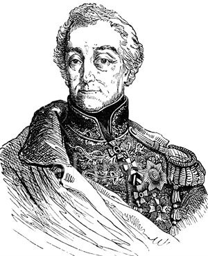 Woodcut of Friedrich Franz Xaver von Hohenzollern (1757-1844).